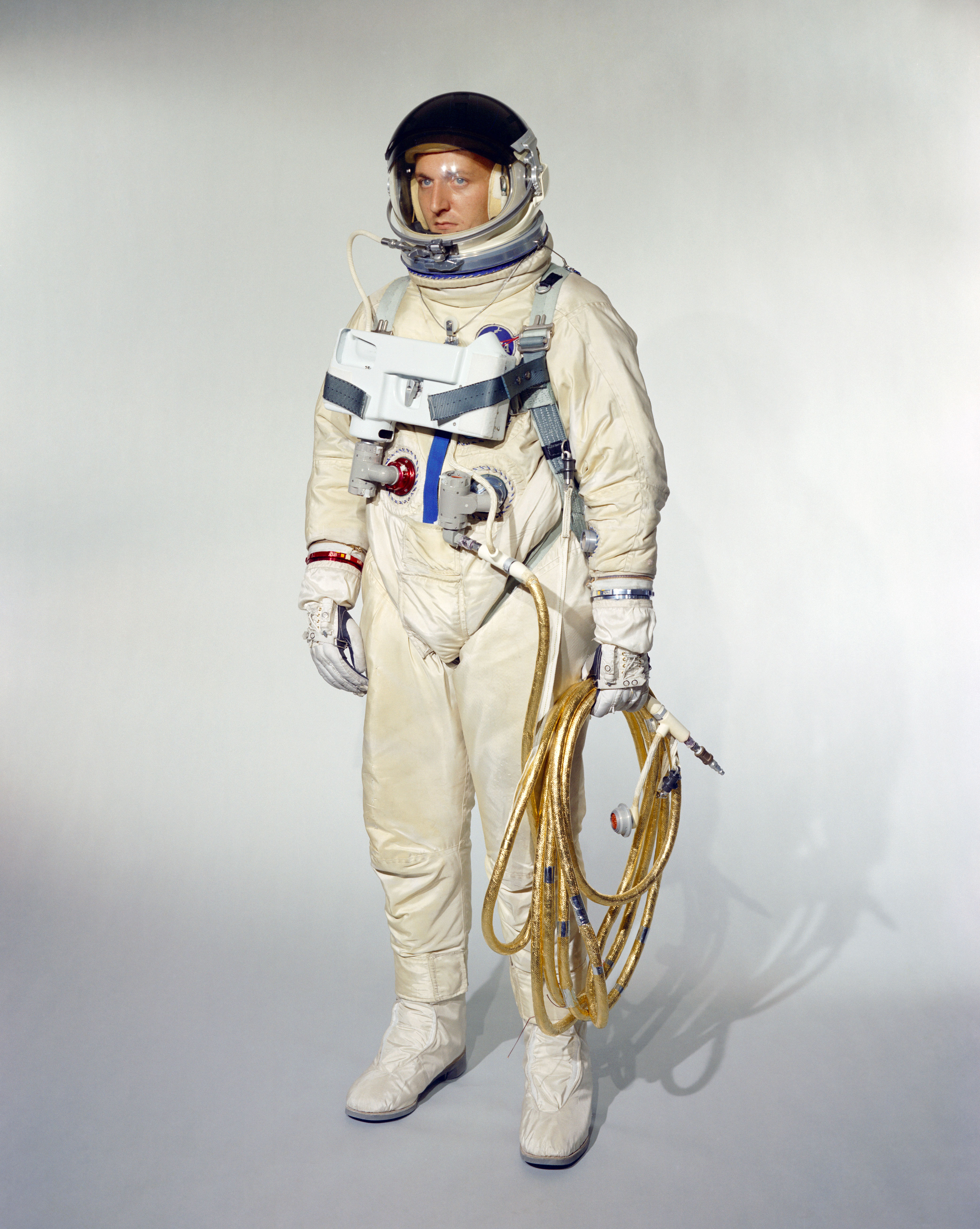 The Gemini G4C extravehicular suit with chestpack ventilation control module and gold-coated umbilical line. NASA Photo S-65-27424, May 28, 1965.